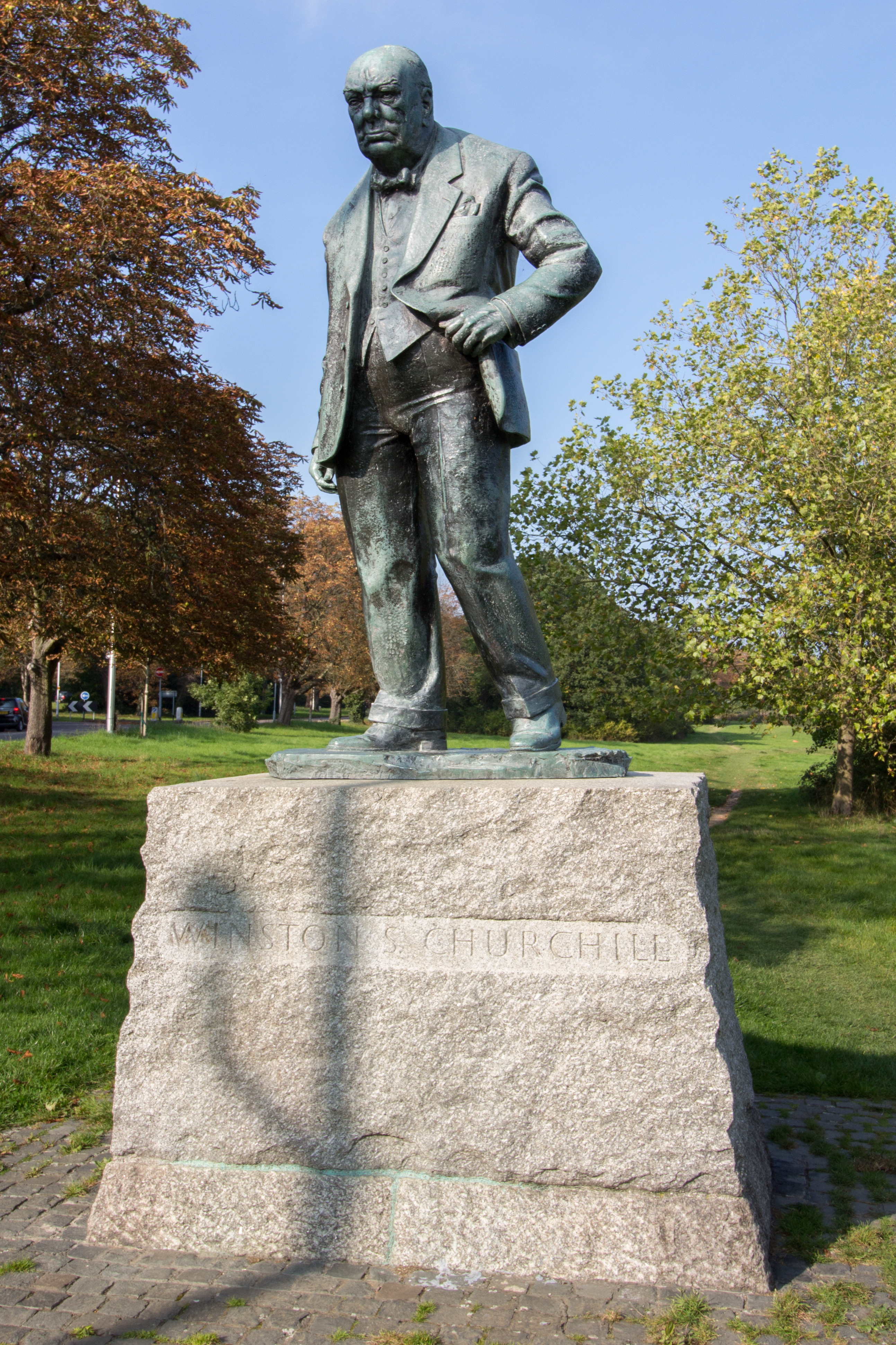 Statue of Winston Churchill on Woodford Green by David McFall. Churchill was MP for the area for 40 years from 1924 until his retirement in 1964 at the age of 90.